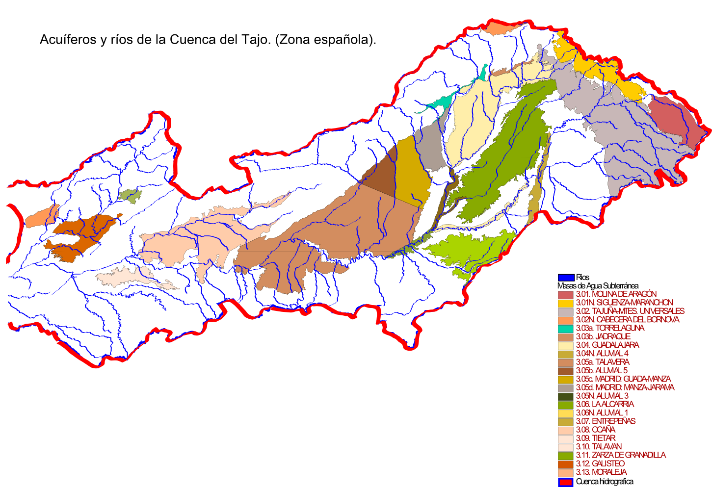 Aquifers and tributaries of the Tagus River basin. (Spanish zone).